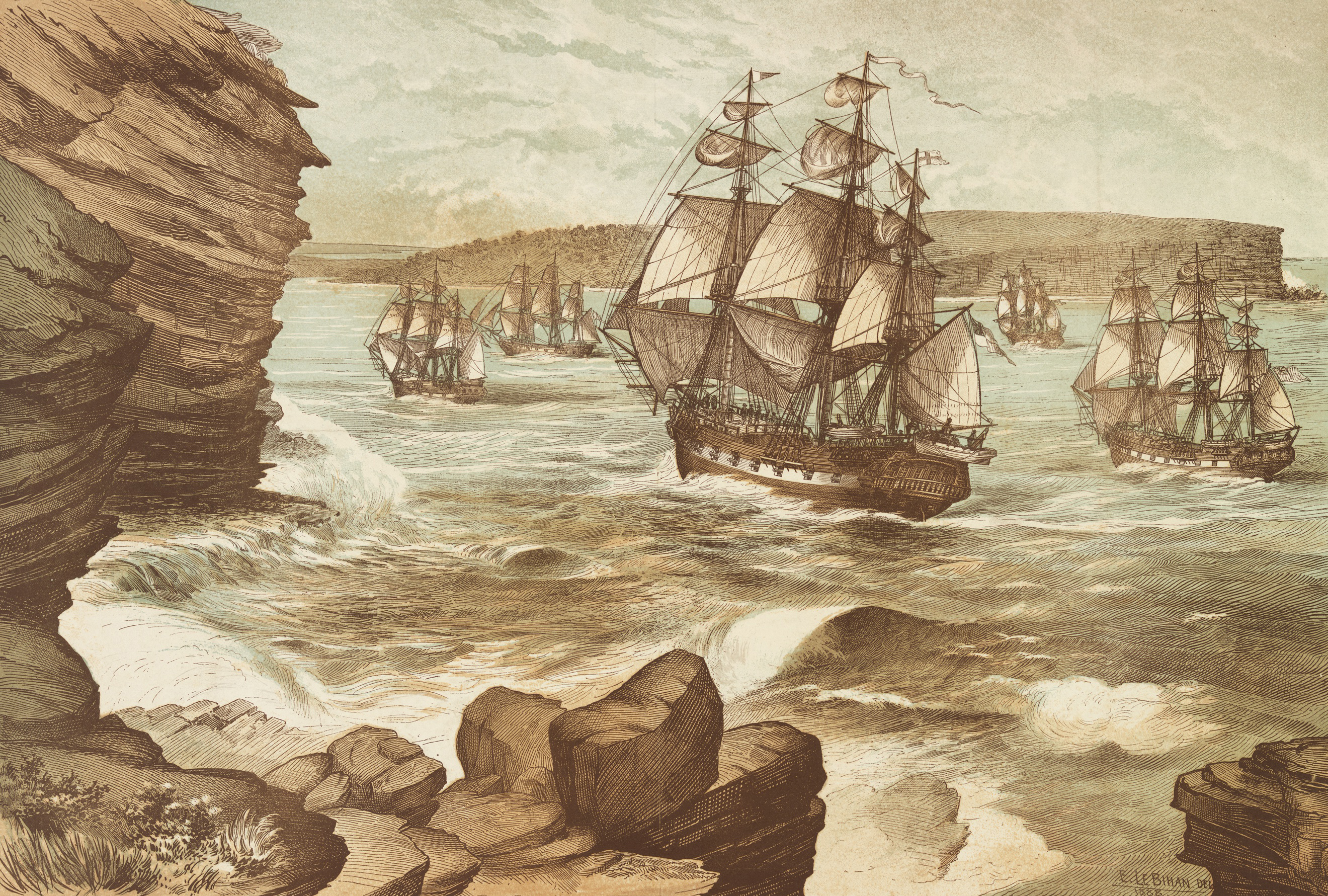 Colour lithograph of the First Fleet entering Port Jackson on January 26 1788, drawn in 1888. Creator: E. Le Bihan